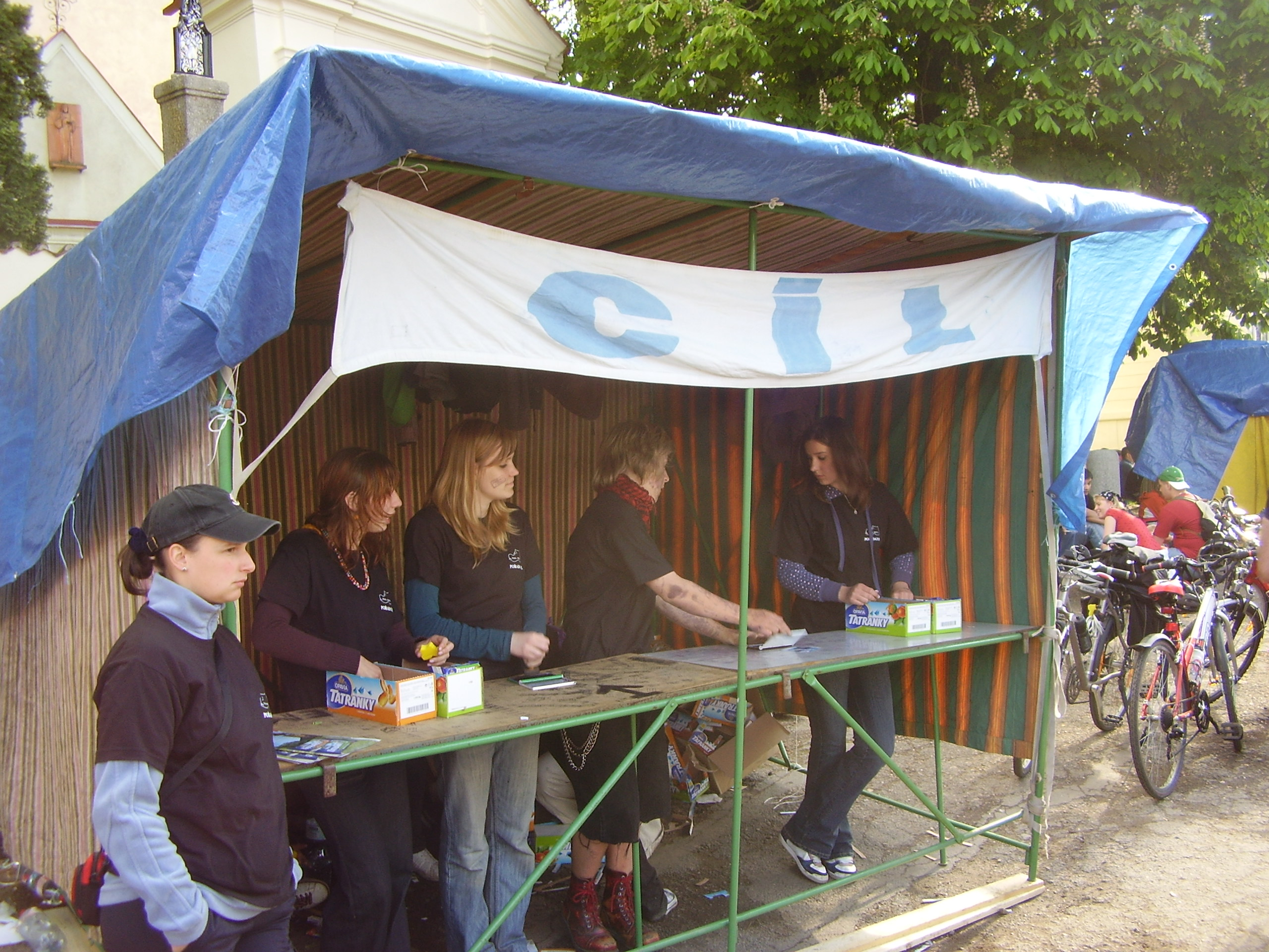 Finish of Pochod Praha – Prčice at Prčice square